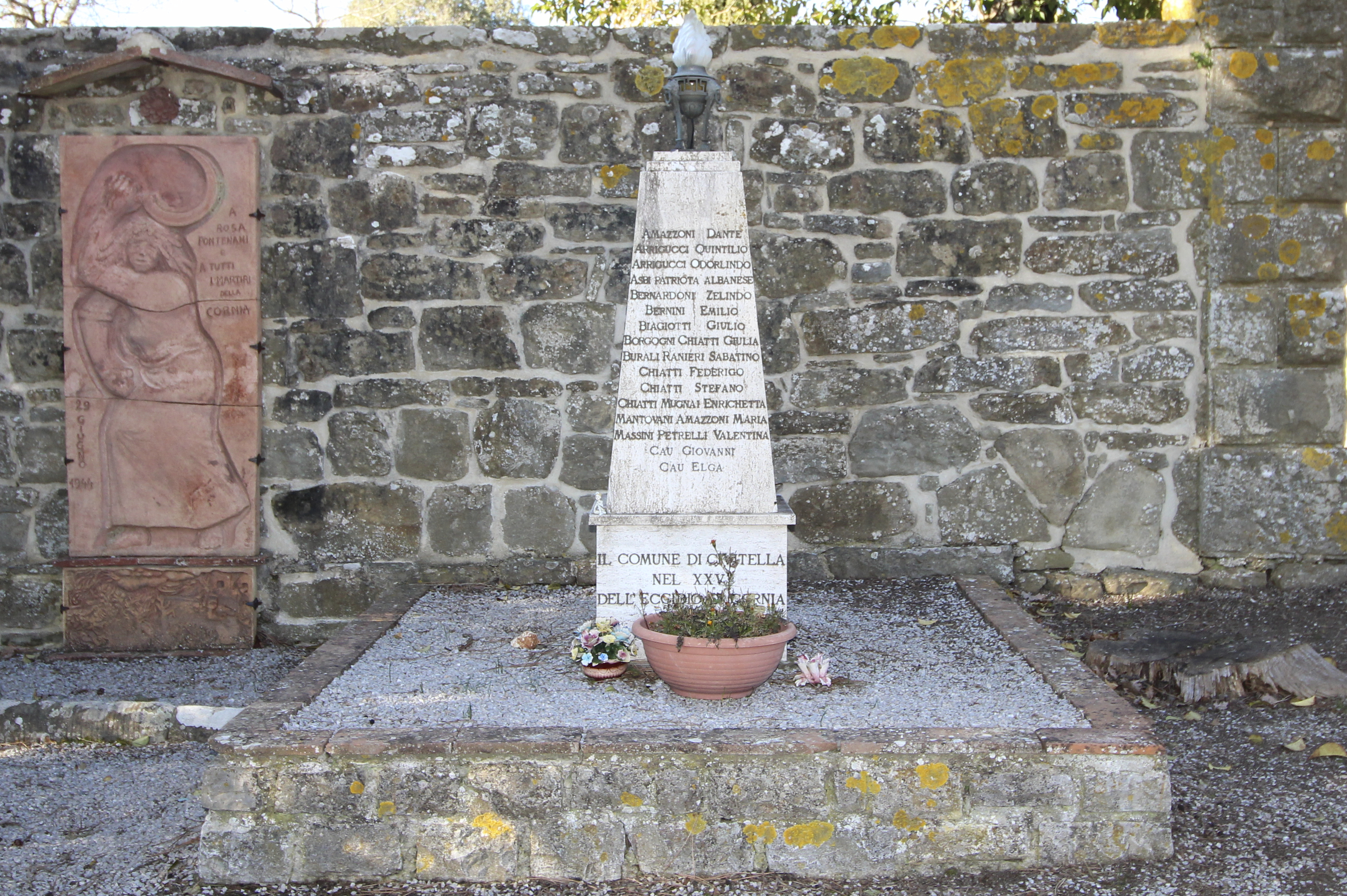 World War II memorial in Cornia, hamlet of Civitella in Val di Chiana, Province of Arezzo, Tuscany, Italy